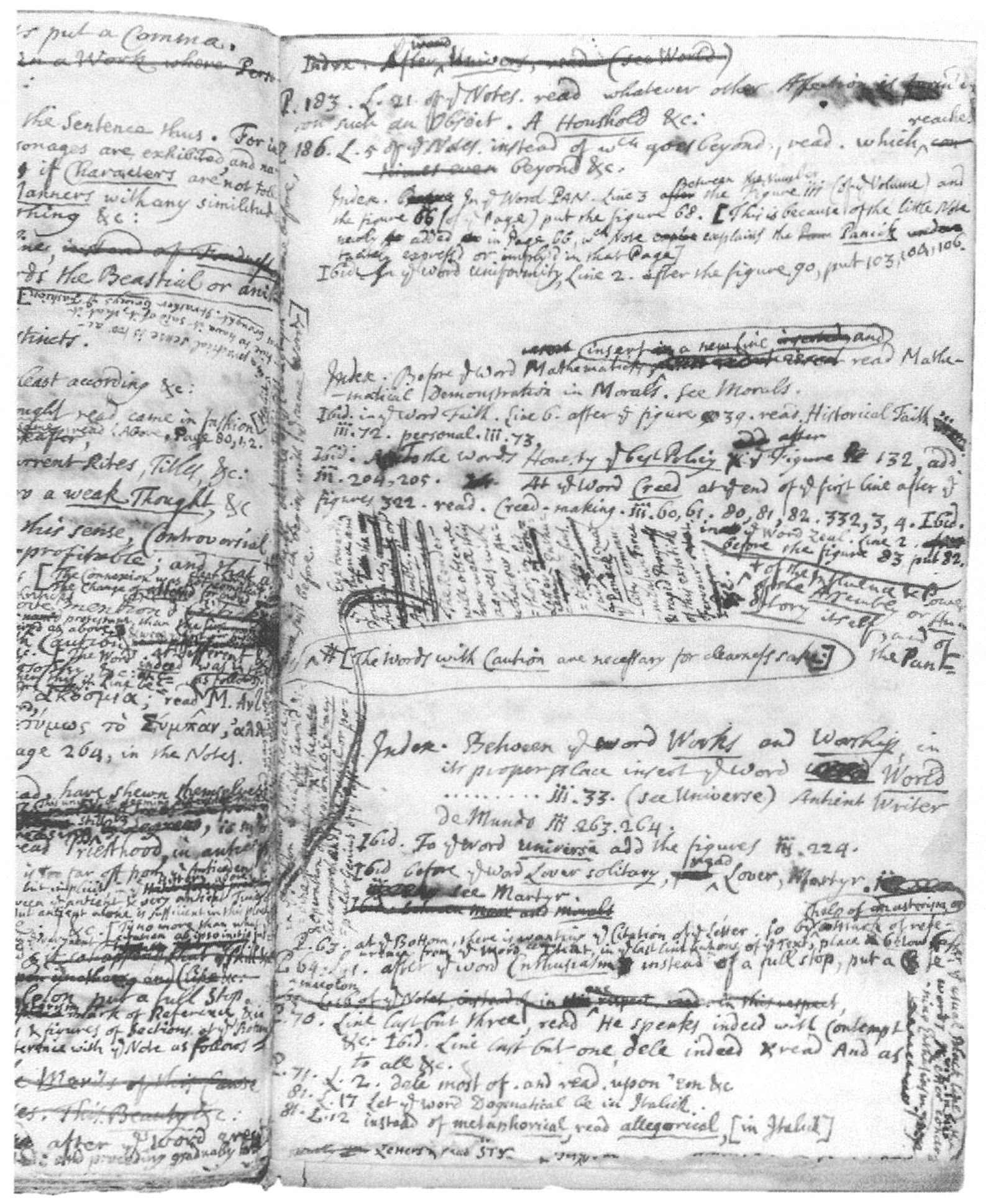 Notes for the planned new edition of Shaftesbury's Characteristicks of Men, Manners, Opinions, Times. London, British Library, BLC C.28.g.16.